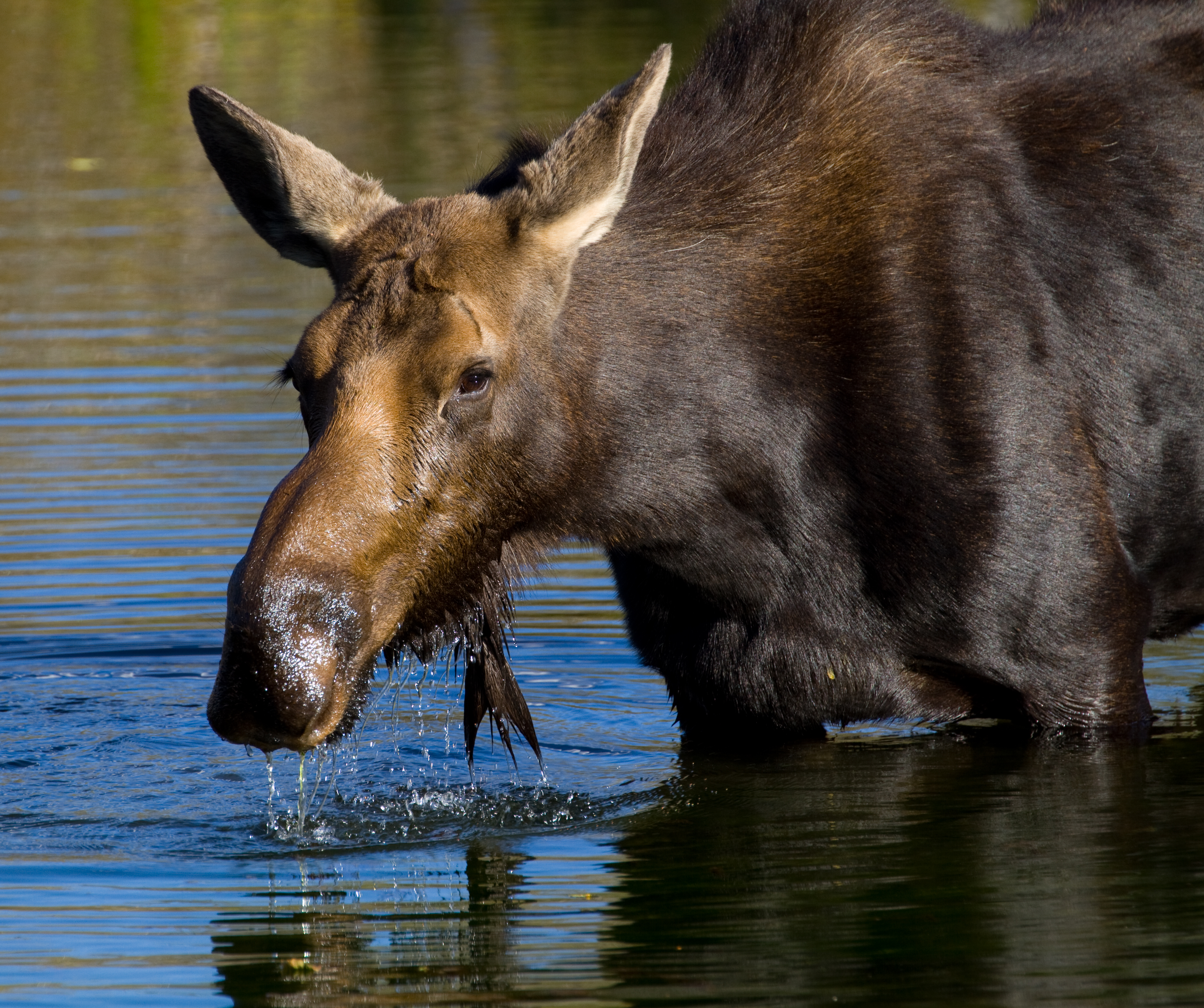 A female moose grazing for water plants in Grand Teton National Park, Wyoming, USA.